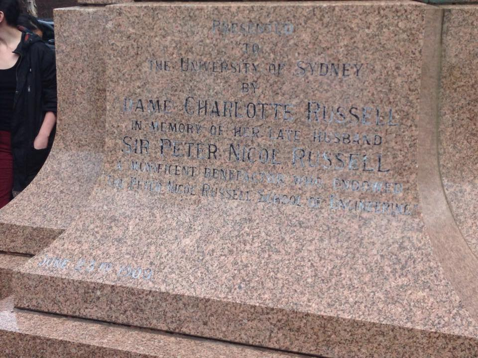 Peter Nicol Russel Memorial Statue located in courtyard of PNR Engineering Building at the University of Sydney